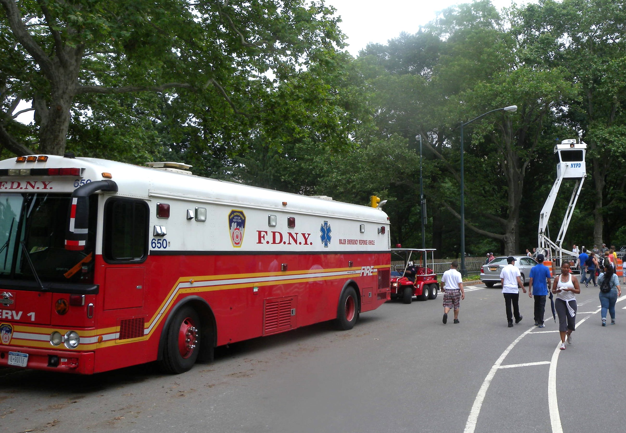 Looking west at Major Emergency Vehicle on Center Drive north of 66th St Transverse on a cloudy Puerto Rican Parade day.